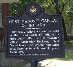 Picture of the historic marker at the Charlestown Masonic Temple in Charlestown, Indiana. See also Charlestown Masonic Building Category:Images of Charlestown